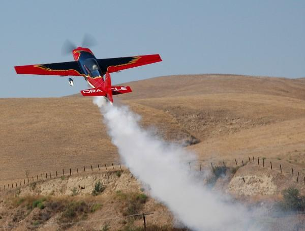 Wayne Handley's Raven climbing out over Metz Airfield.